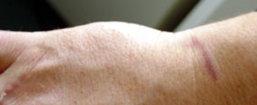 Burn (allergic reaction induced by skin contact with Giant Hogweed).